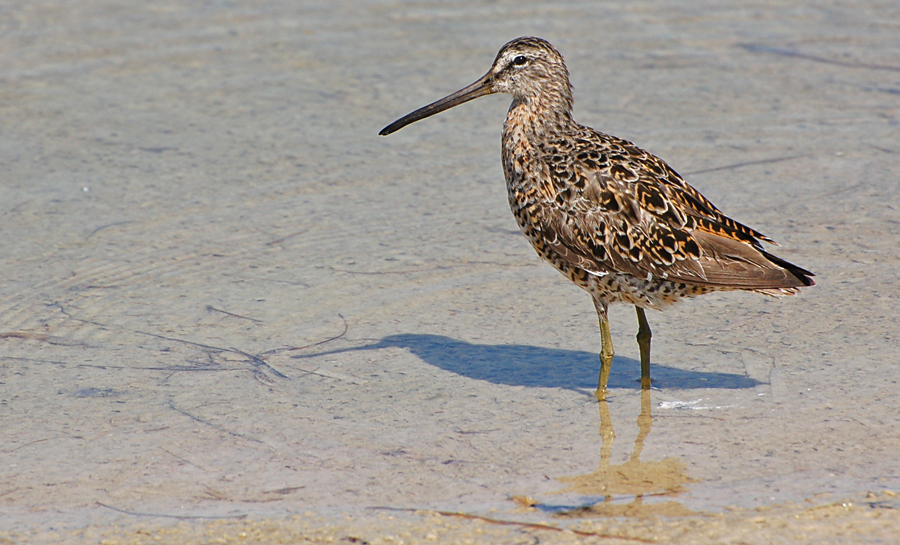 Short-billed Dowitcher (Limnodromus griseus)